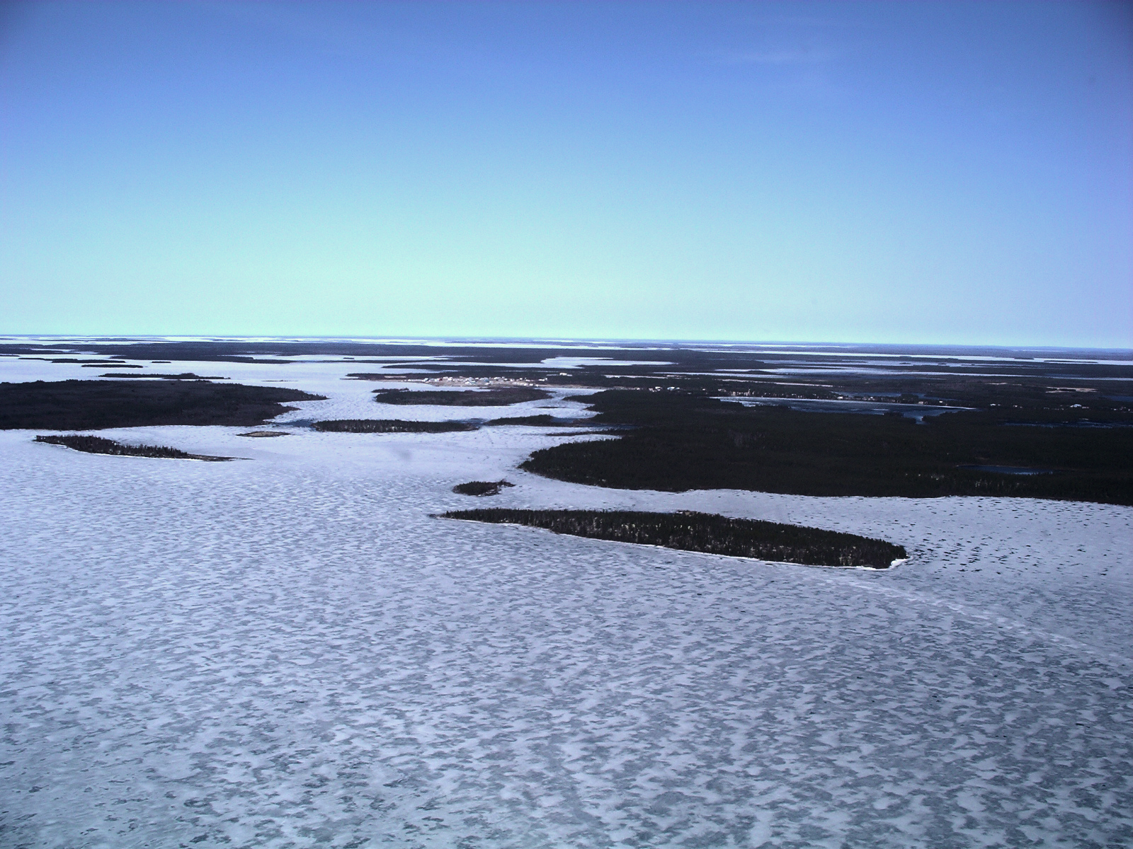 approaching St.Theresa from the north